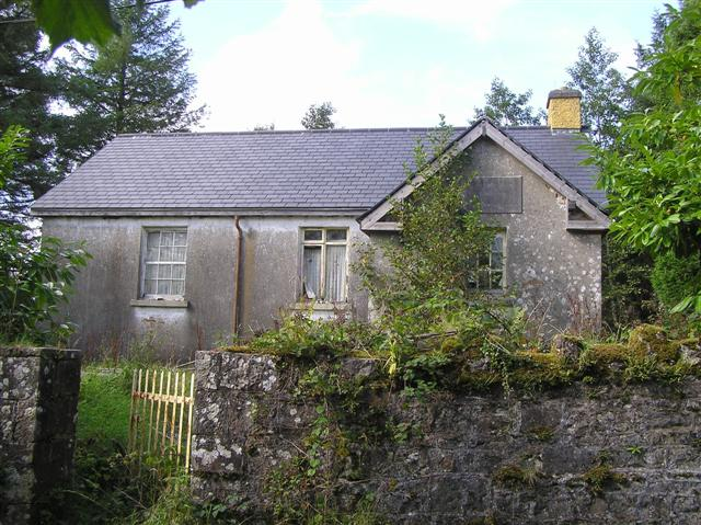 National School at Ballyboy, near to Lissinagroagh, Leitrim, Ireland. A close-up of the plaque is shown here G9240 : Plaque at National school